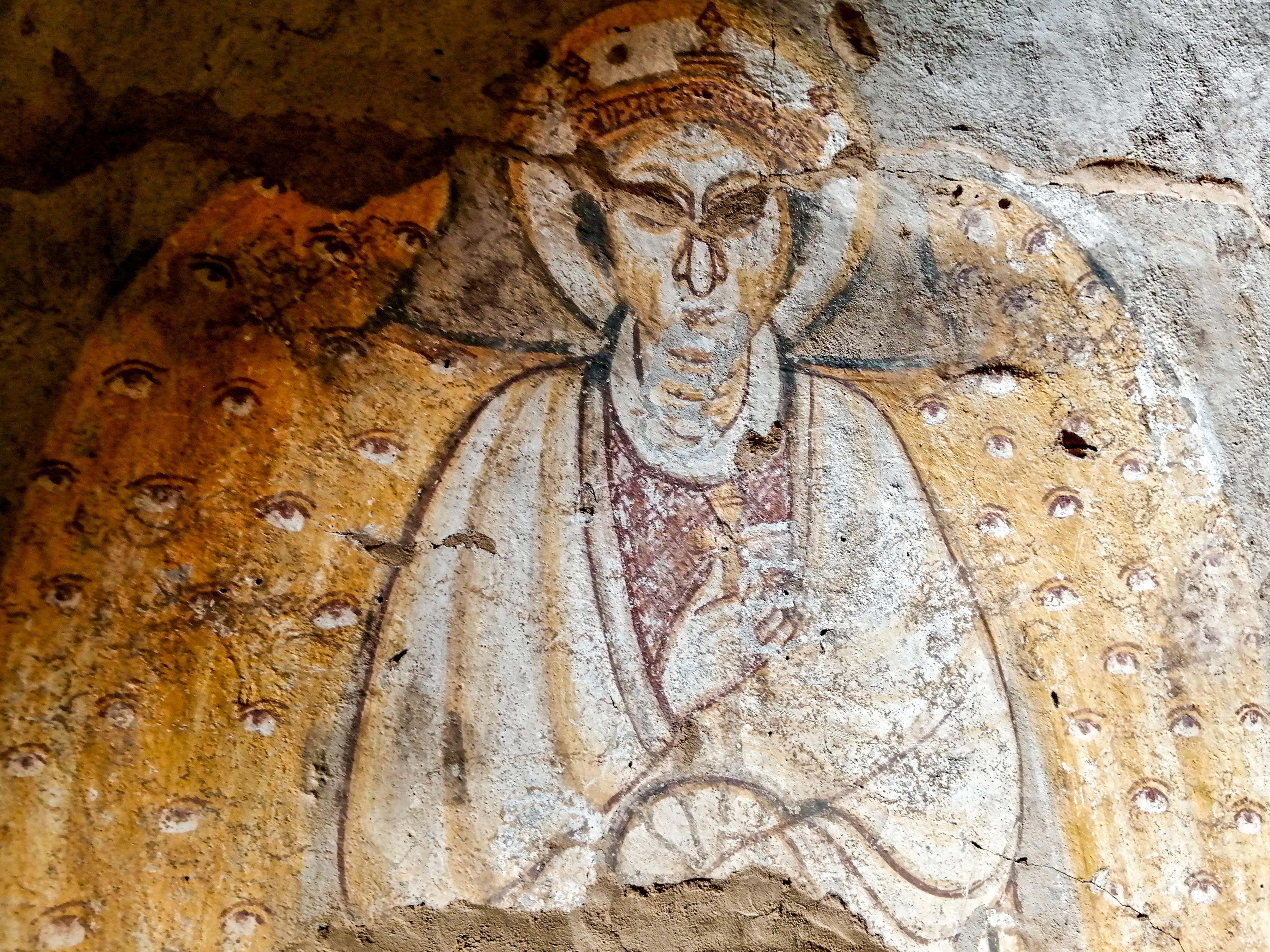 Fresco at a Medieval church, Old Dongola site, Sudan